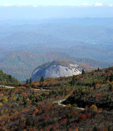 Blue Ridge Parkway across from Looking Glass Rock Photo taken by zen 2002.